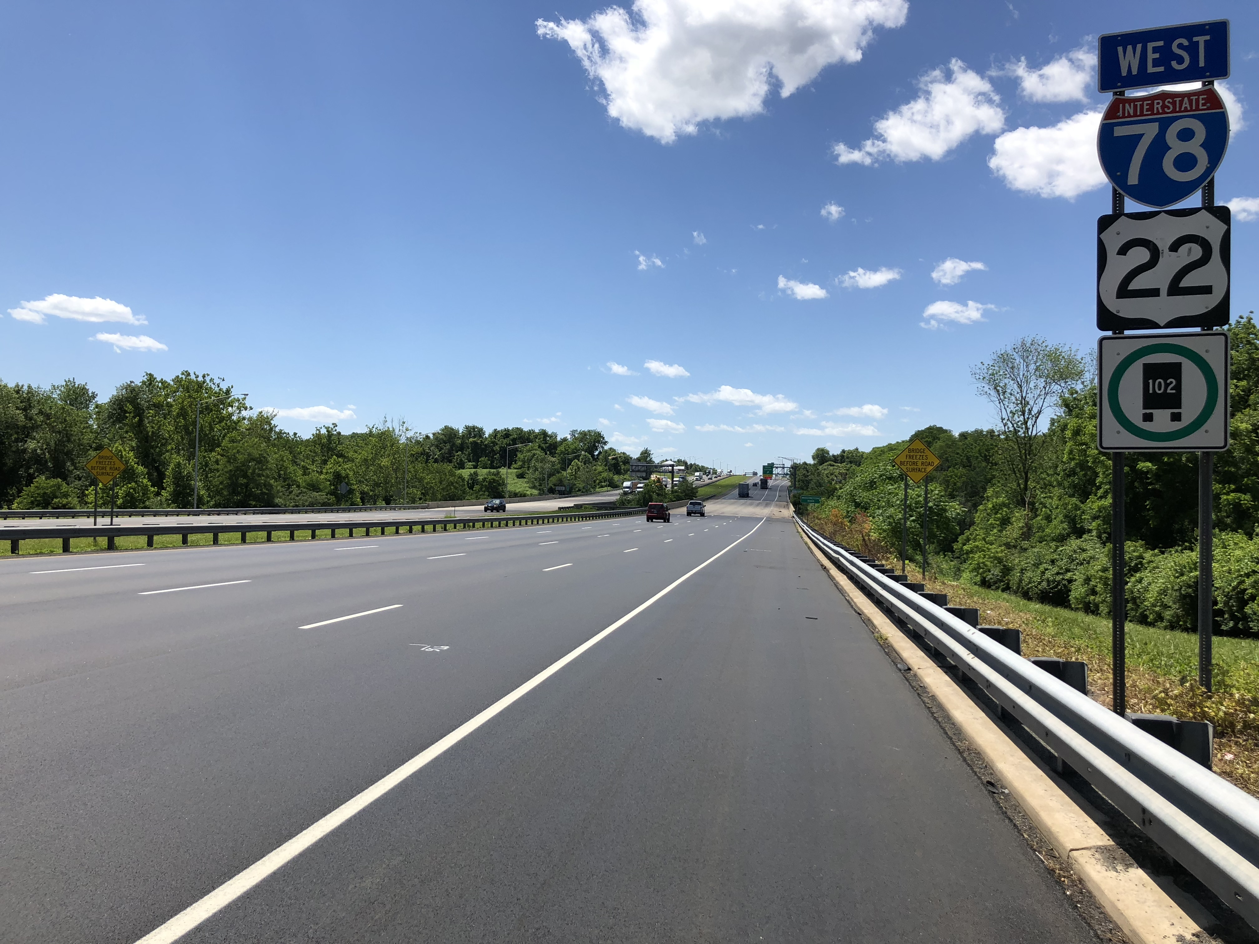 View west along Interstate 78 and U.S. Route 22 (Phillipsburg-Newark Expressway) between Exit 7 and Exit 6 in Bloomsbury, Hunterdon County, New Jersey